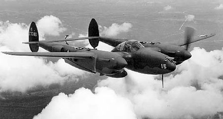 Lockheed P-38F-1-LO in flight